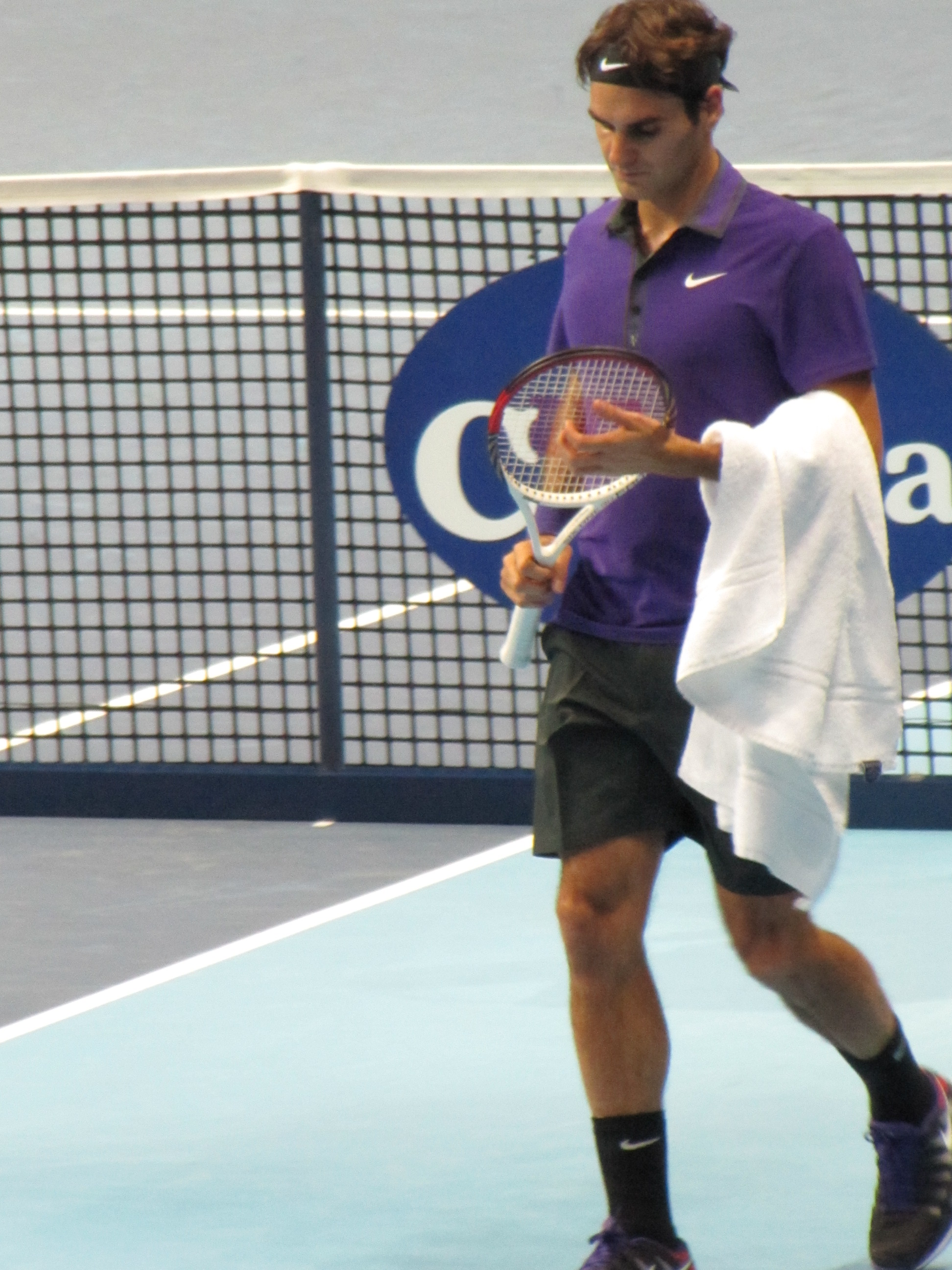 Roger Federer vs Juan Martín del Potro, in the 2012 APT World Tour Finals series at the O2 Arena.